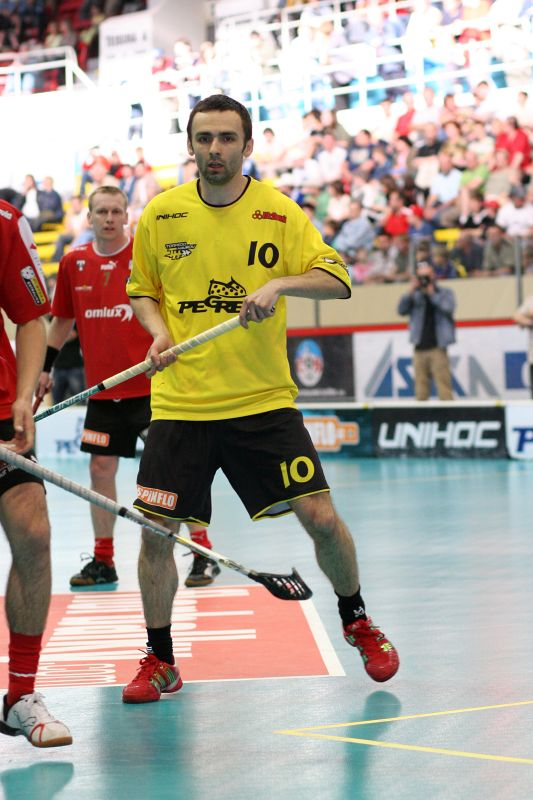 Czech Floorball player